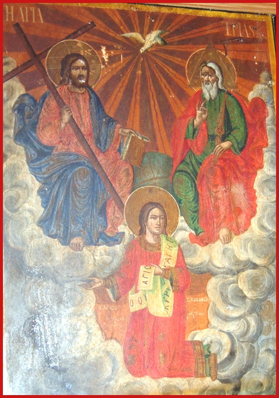 Holy Trinity and Saint Stephen Icon in Saint Athanasius Church in Zagorichani Vasiliada by Michael G Samaras from Hrupishta, 1888